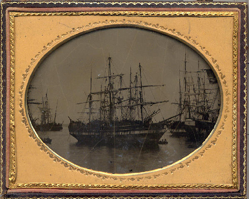 [Whaler] "Benjamin Tucker" in Honolulu. Ambrotype, 1/2 plate, cased. New Bedford Whaling Museum. Bark Benjamin Tucker at anchor in harbor in Honolulu. On her return passage from the Arctic, Benjamin Tucker encountered a storm which damaged her rigging. Captain Spencer commisioned this ambrotype depicting the damage to send to the vessel's owners. It is one of the earliest known photographs of an American whaleship. Other ships can be seen on either side of photograph.